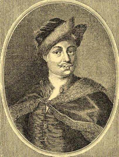 Prince Stephen Bethlen of Transilvania